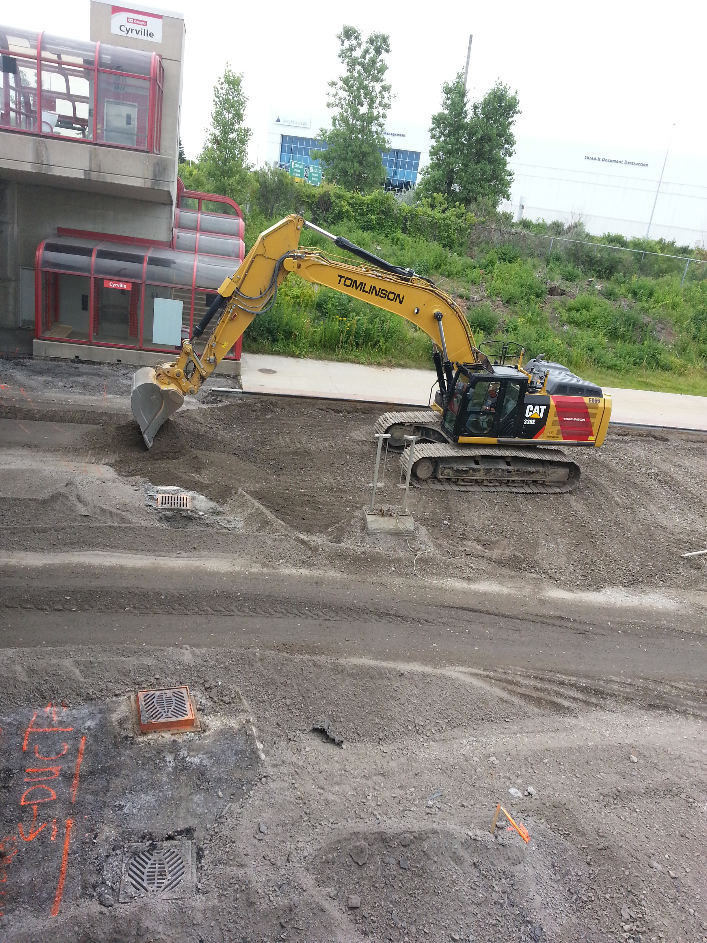 Workers demolishing the road surface at Cyrville Transitway station, as part of the work to build the light rail link heading east from downtown Ottawa.